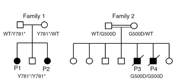 Patients' pedigrees showing autosomal recessive mutation of TPPII Deficiency in two families.